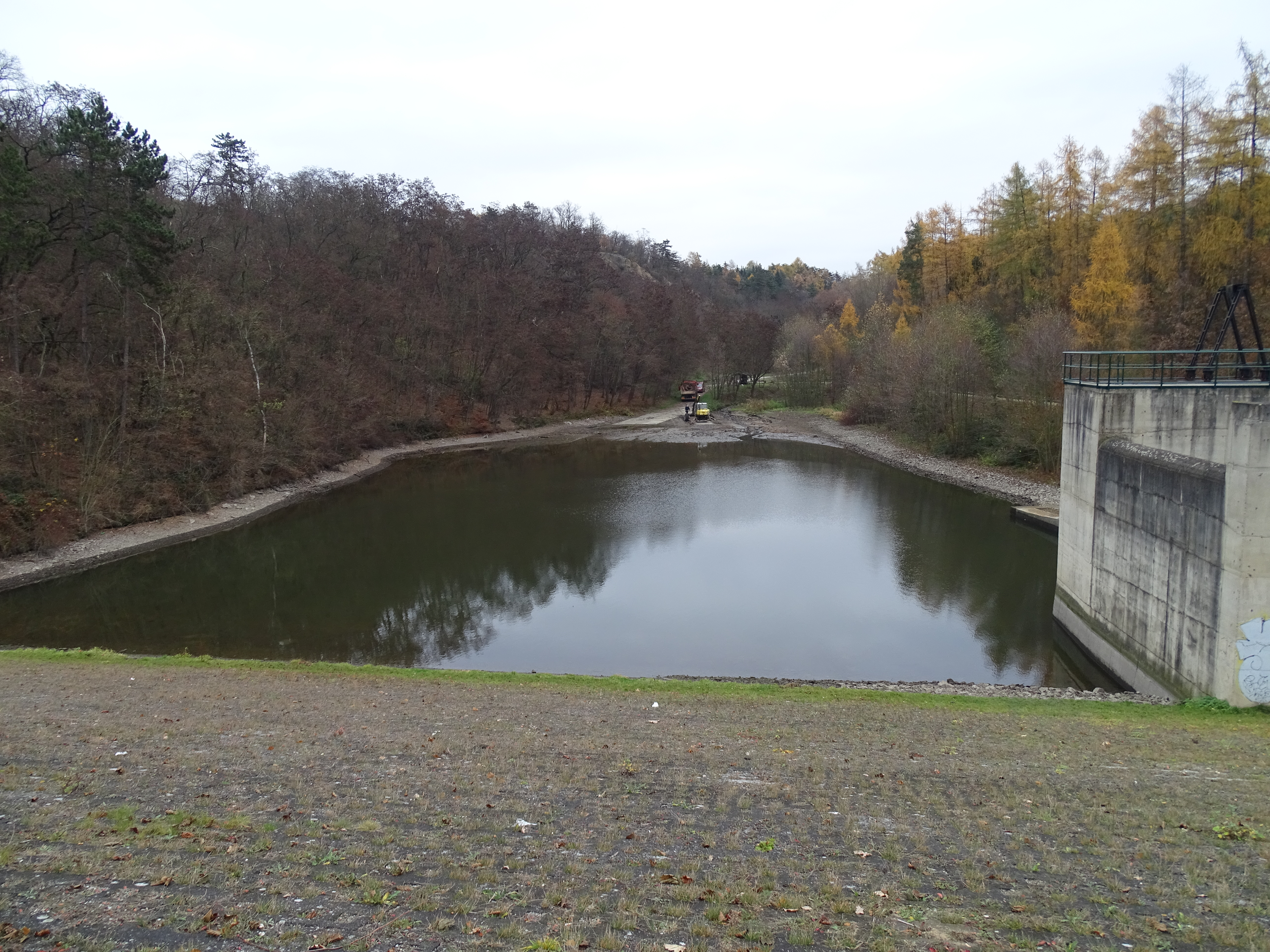 Prague-Cholupice and Libuš, Czech Republic. Libušská Reservoir.